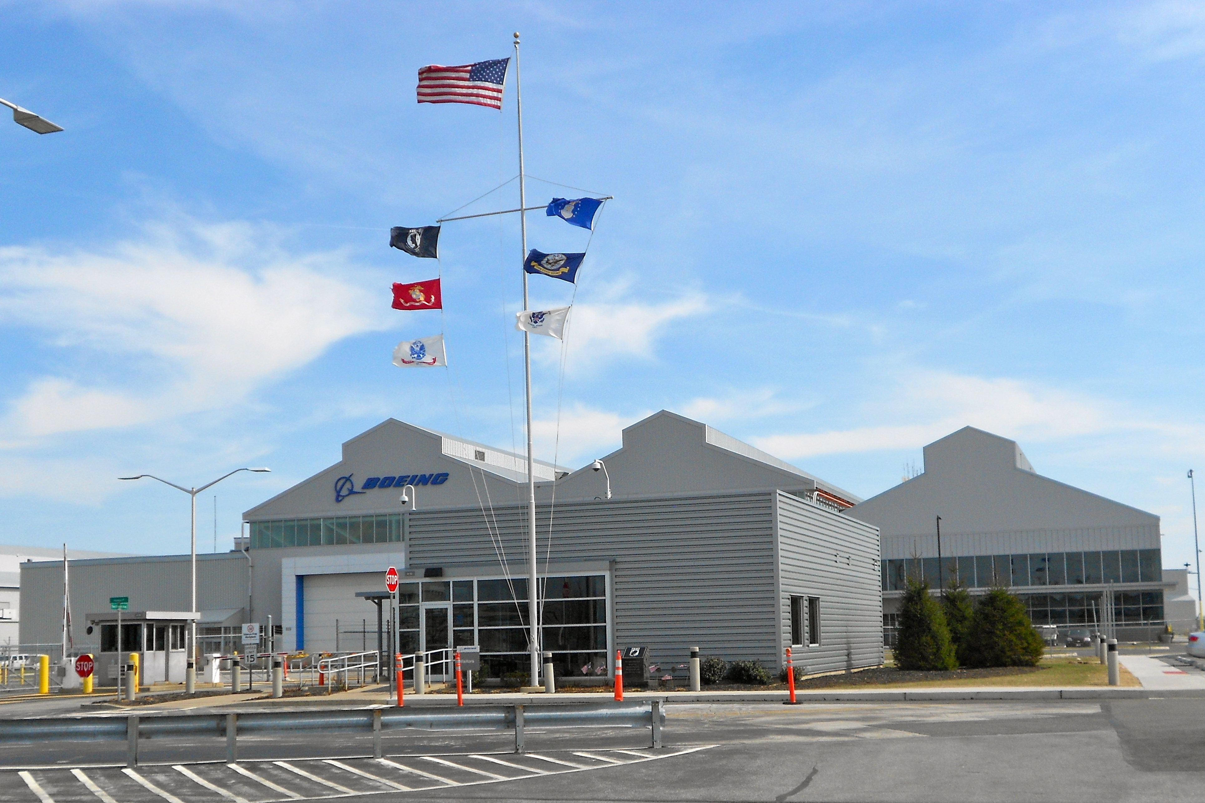 Boeing building in Ridley Park, PA